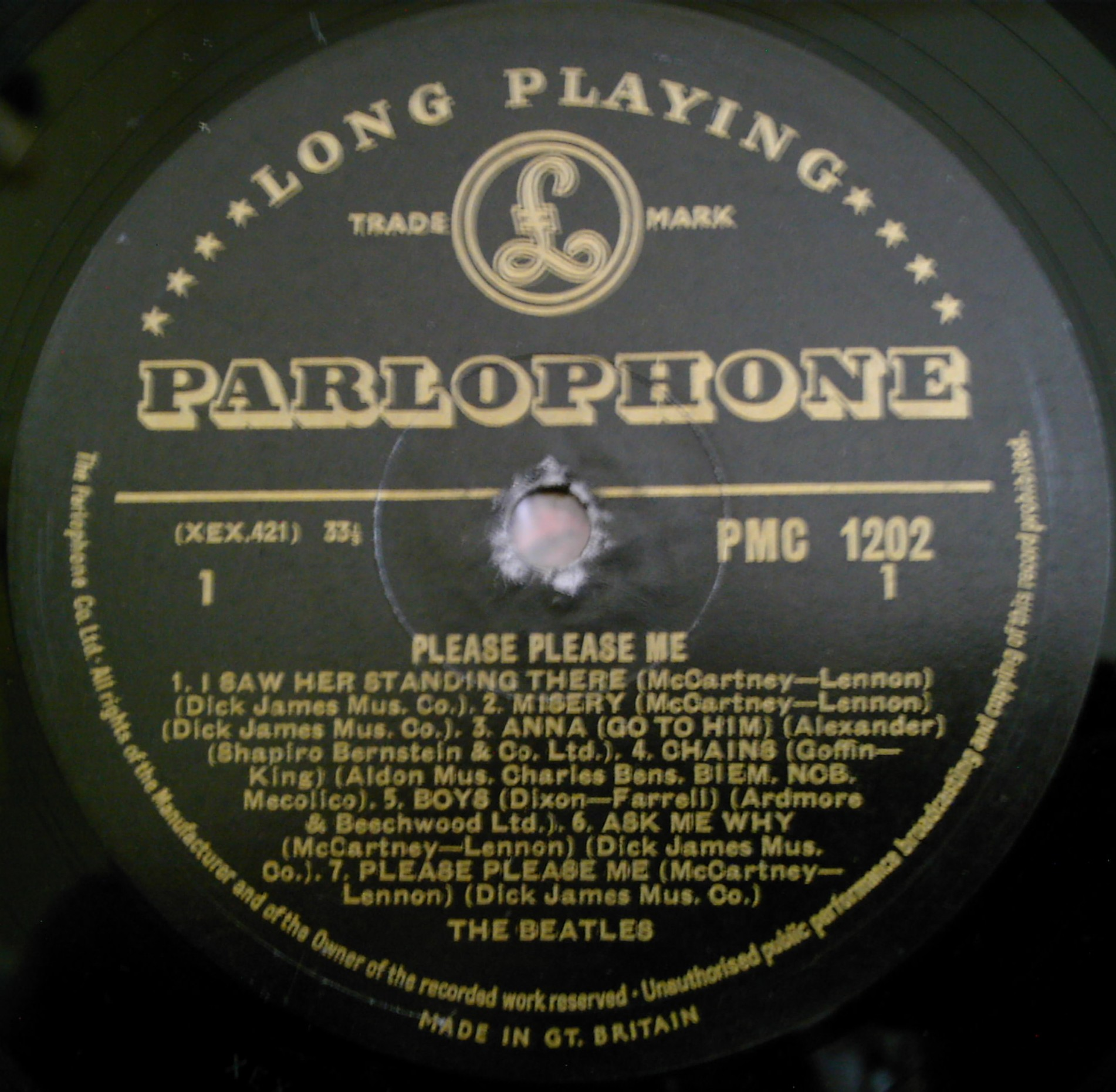 1963 Parlophone Beatles LP to show the Gold and Black label. This version is a cropped photograph.